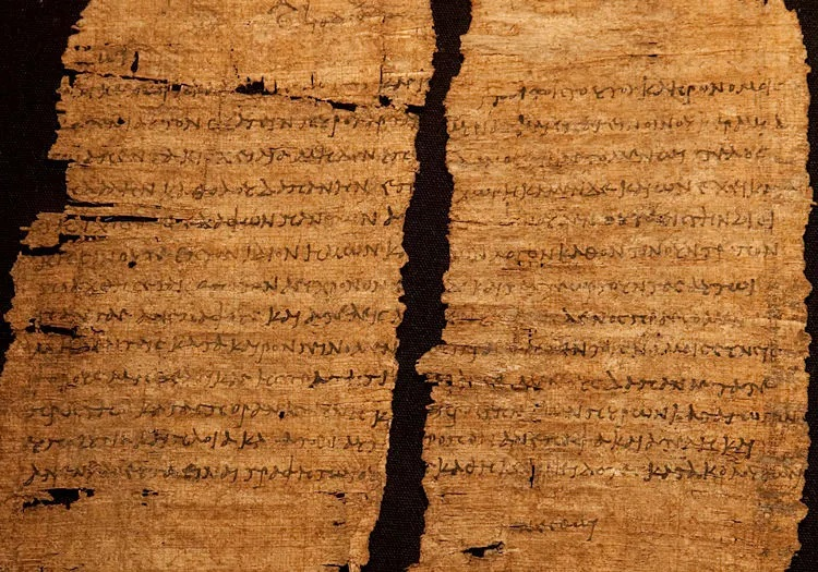 Duane W. Roller (2010, p. 134) provides a description of this papyrus document from late Ptolemaic Egypt, dated to the reign of Cleopatra VII: "In February 33 B.C. she approved an order granting certain tax exemptions to Publius Canidius Crassus, who had been with Antonius for a decade and would be senior commander of the land forces at Actium. The relevant document is a papyrus recovered from mummy wrappings and first published in the year 2000. Canidius was allowed to import 10,000 artabas of wheat and 5,000 amphoras of wine tax free, and the lands that he owned in Egypt were also exempt. What has excited interest is the subscript in a different hand: γινέσθωι ("make it happen"). There is little doubt that this is the writing of the queen herself, as there was a tradition in Ptolemaic Egypt of countersigning by the monarch, in part to avoid forgery of official documents. This autograph of Cleopatra VII certainly is one of the more exciting discoveries of recent years: the only other known royal autographs from antiquity are of Ptolemy X and Theodosios II, both somewhat less interesting than the queen. The document also indicates the dichotomy that still existed at the very end of the Ptolemaic era between the rulers (and their Roman allies) and the ruled, where the former continued to obtain special privileges." Source: *Roller, Duane W. (2010) Cleopatra: a biography[1], Oxford: Oxford University Press, ISBN 978-0-19-536553-5